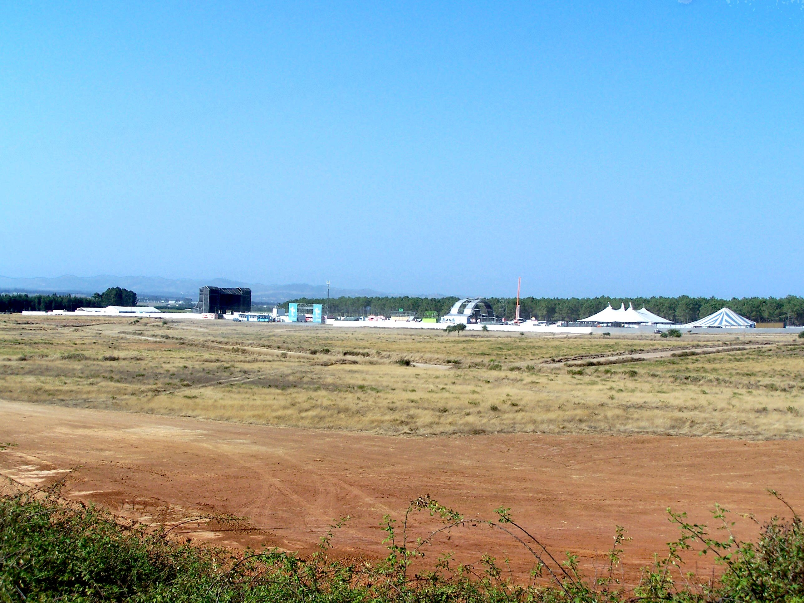 Festival Sudoeste - Sudoeste is a large, four-day music festival that began in 1996 and takes place every August near Zambujeira do Mar, in southern Portugal. The festival has three stages which play different music simultaneously.